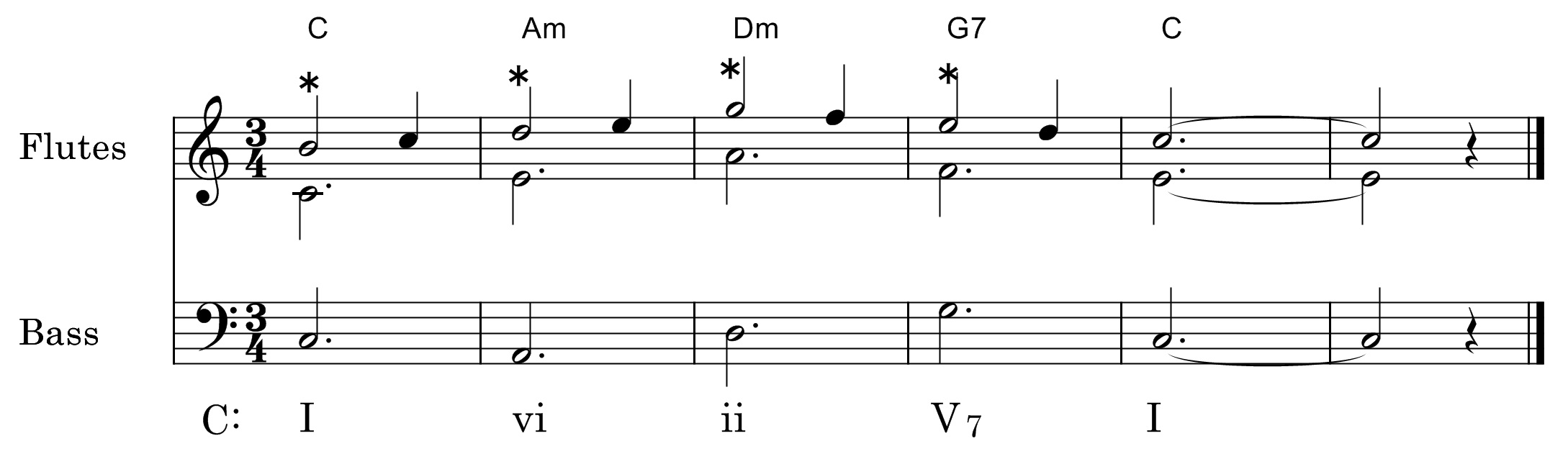 An example how to resolve expressive appoggiaturas in 2 voice sectional harmony.